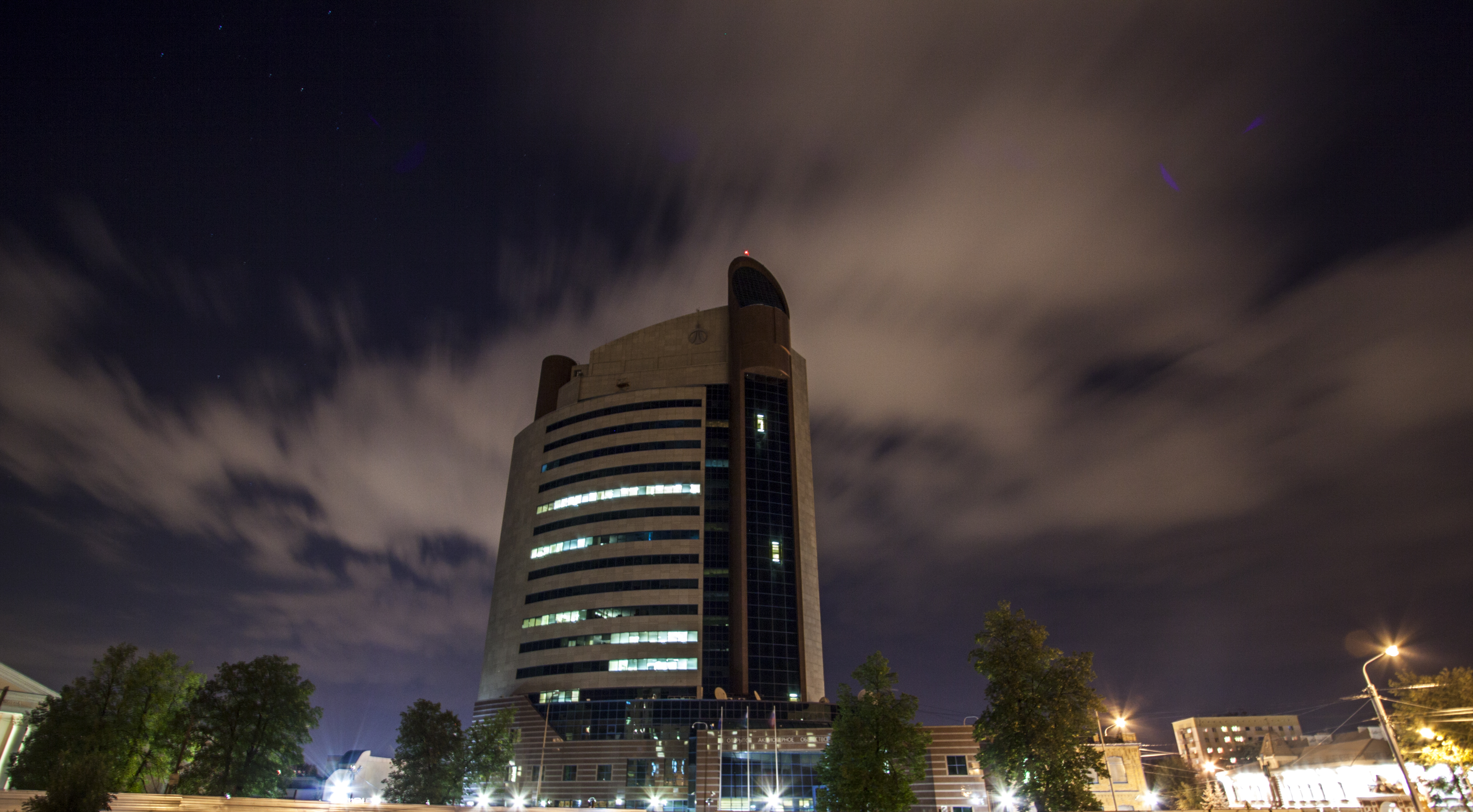 Uralsib skyscraper in Ufa, Bashkortostan.